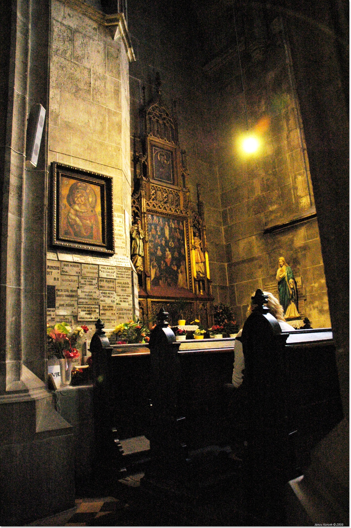 St. Elisabeth Cathedral